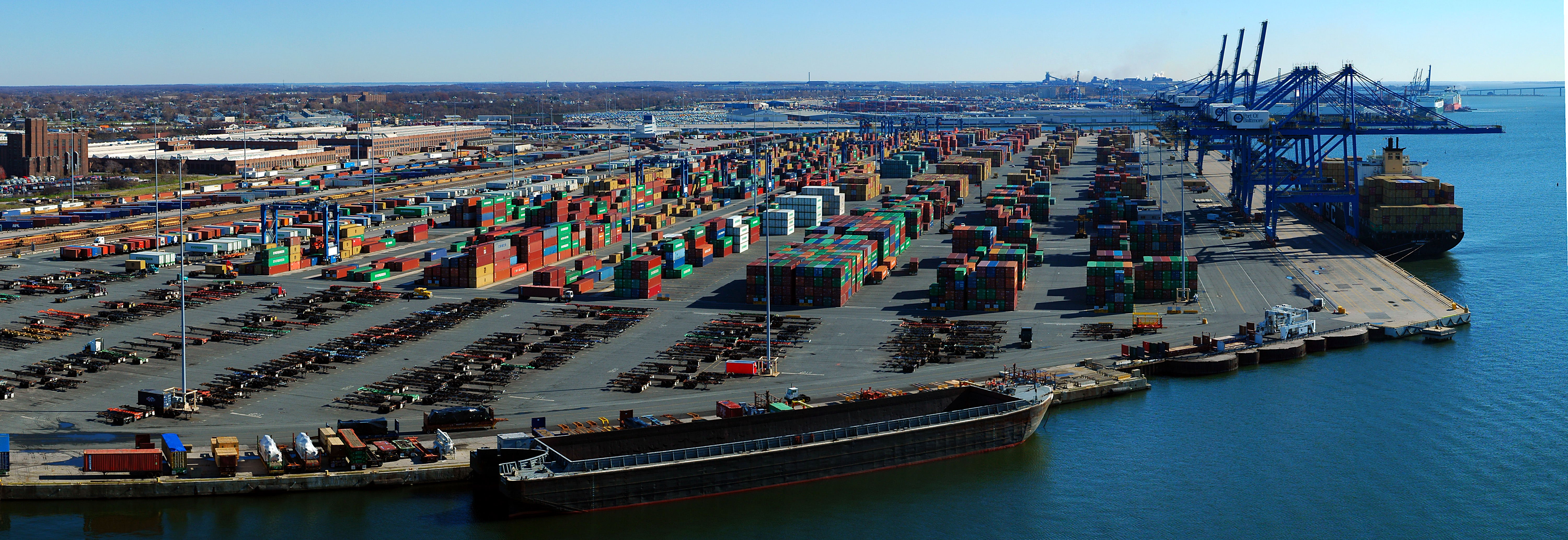 Seagirt Marine Terminal, Baltimore, MD This panorama shows the three stages of containerization; shipping, storage, and distribution (by train). In addition, Seagirt Terminal was the filming location for many scenes in the third season of HBO's drama The Wire.